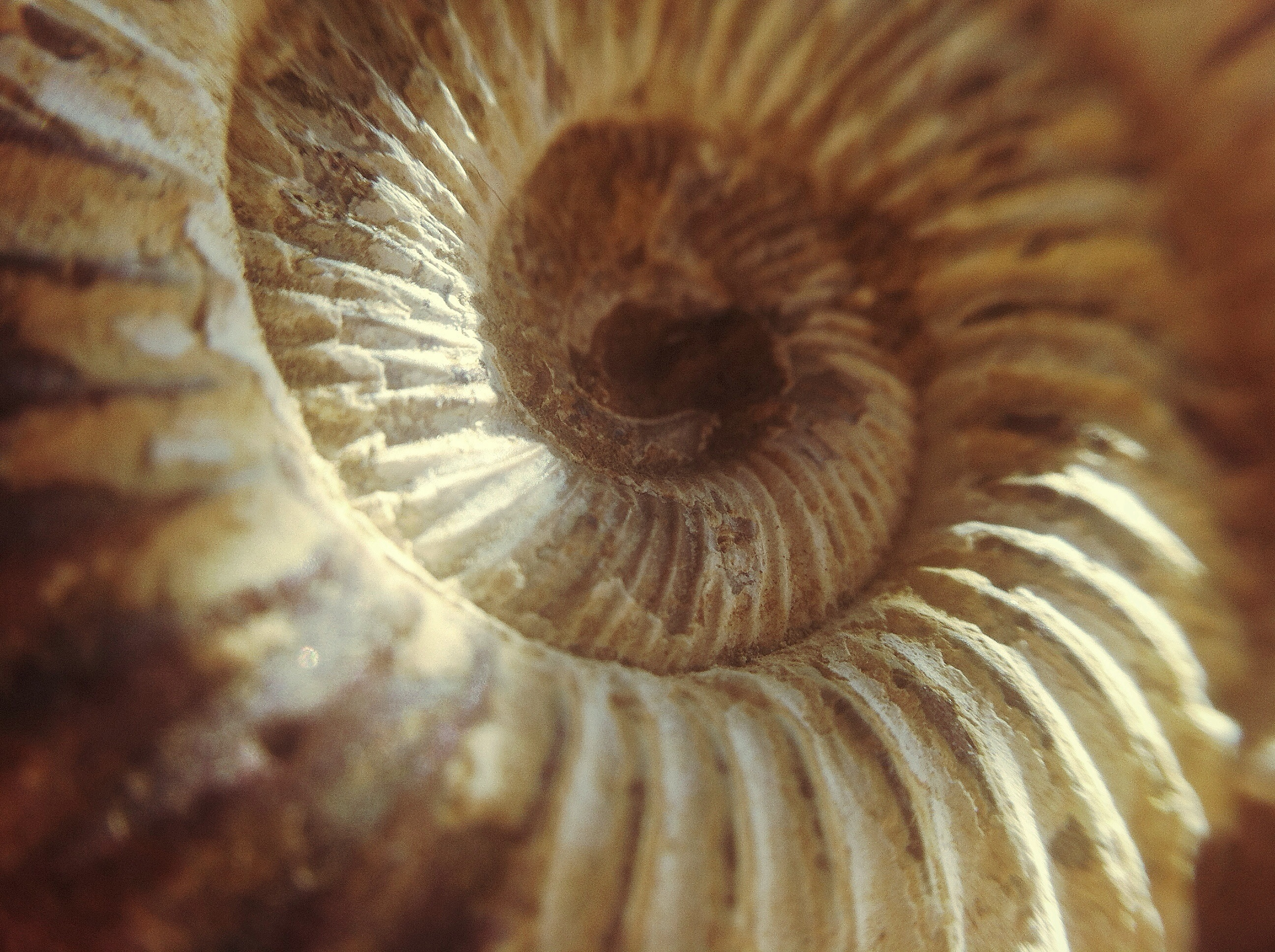 Taken on iPhone 4 using macro lens, image of fossil. Featured on the aspect iPhone app as photo of the day